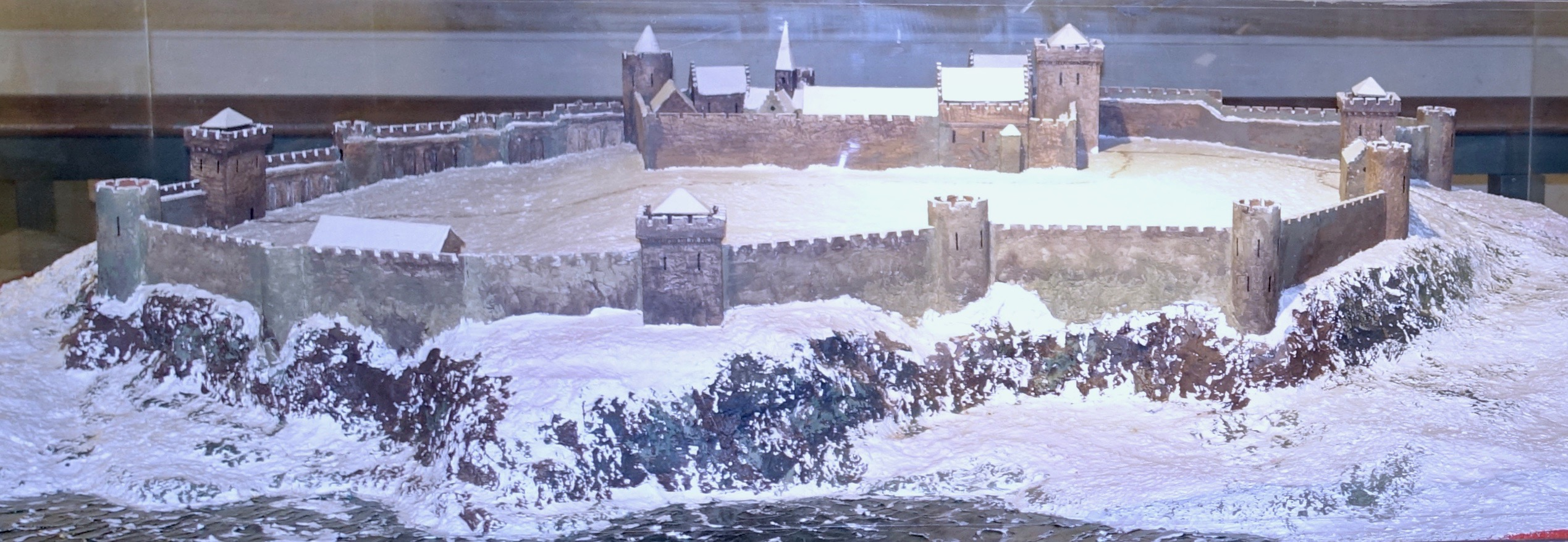 Model of the Tunsberghus Fortress, founded ca. 1000, burned down in 1503, on the Slottsfjellet Mountain in Tønsberg, Norway's oldest town, founded in 871. Exhibition model by Major Andreas Hauge on display at the Armed Forces Museum of Norway at Akershus Fortress in Oslo, Norway. Photo taken on 2019-03-31